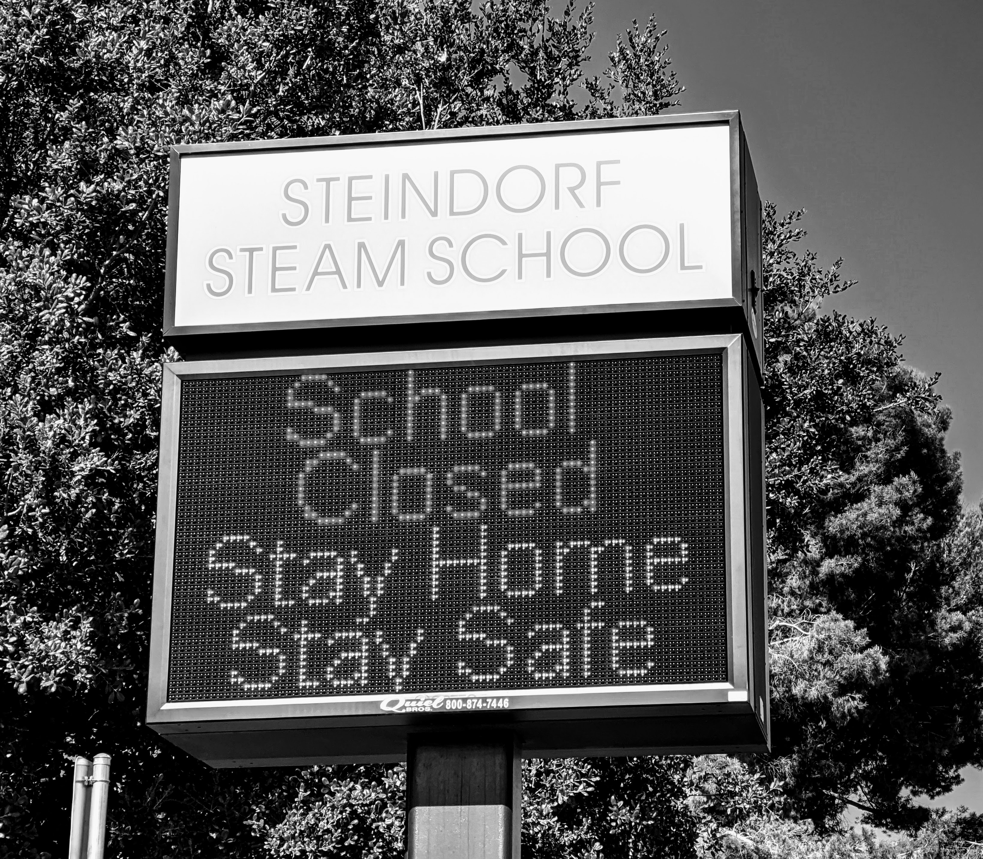 A sign at the Steindorf STEAM School in San Jose, California, announces the school’s closure due to the COVID-19 pandemic and shelter-in-place order.